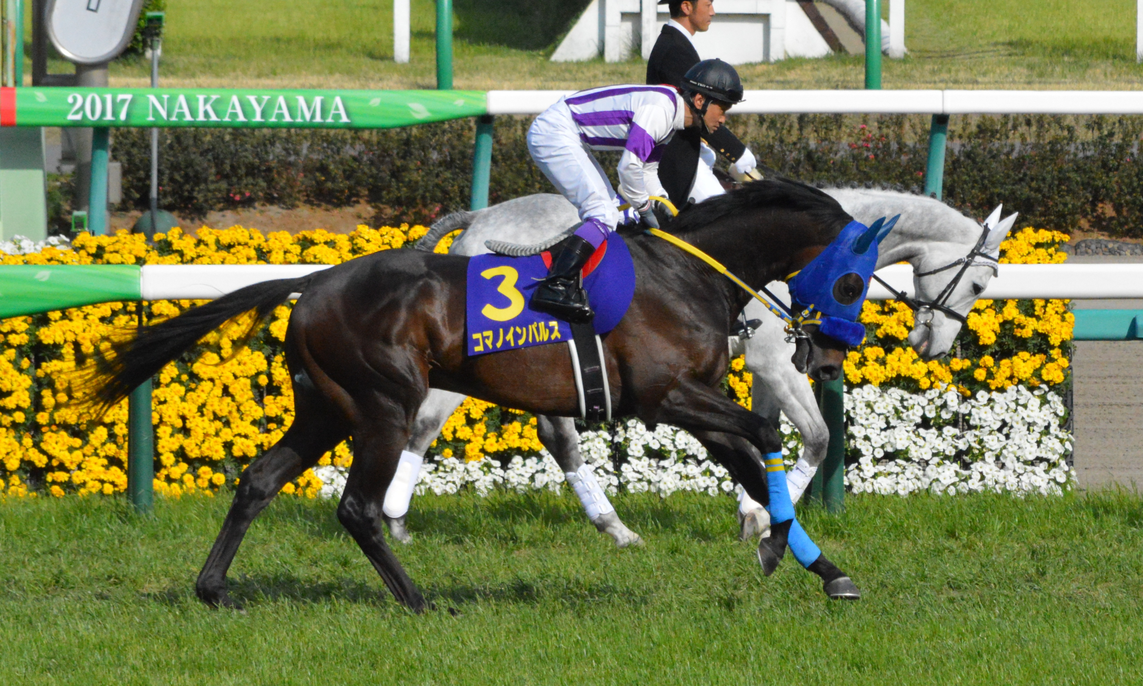 Japanese race horse Komano Impulse at Nakayama racecourse. Nakayama (JPN) 16 Apr 2017Satsuki Sho (Japanese 2000 Guineas) (Grade 1) (3yo Colts & Fillies) (Turf) 1m2f Firm RankHorse NameOddsAgeWgtJockeyTrainer1stAl Ain (JPN)214/10C39-0Kohei MatsuyamaYasutoshi Ikee14thKomano Impulse (JPN)126/1C39-0Teruo EdaMasatatsu KikukawaOthers are omitted. (18 horses entered in a race.)